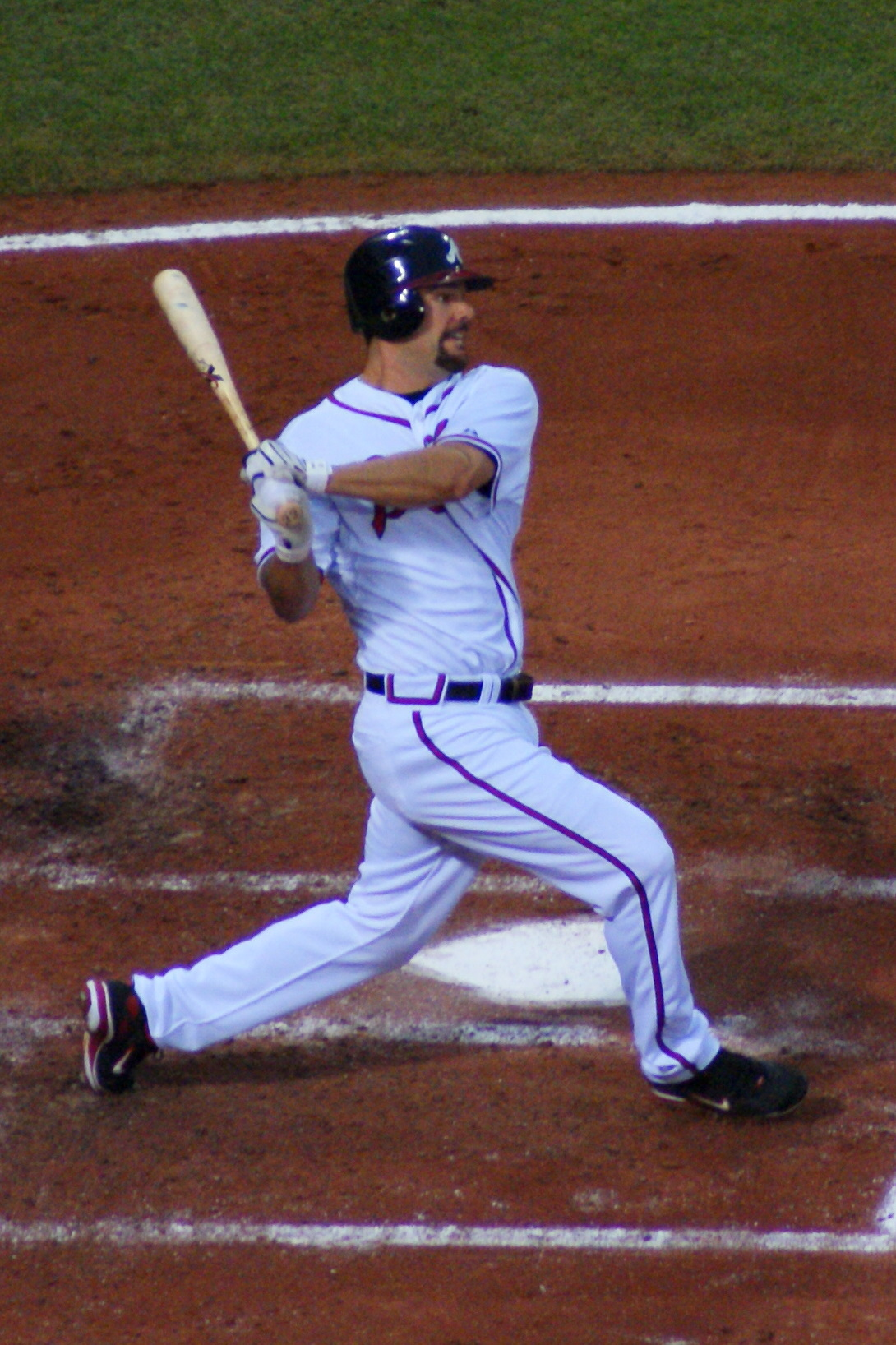 Casey Kotchman with the Braves in 2009.